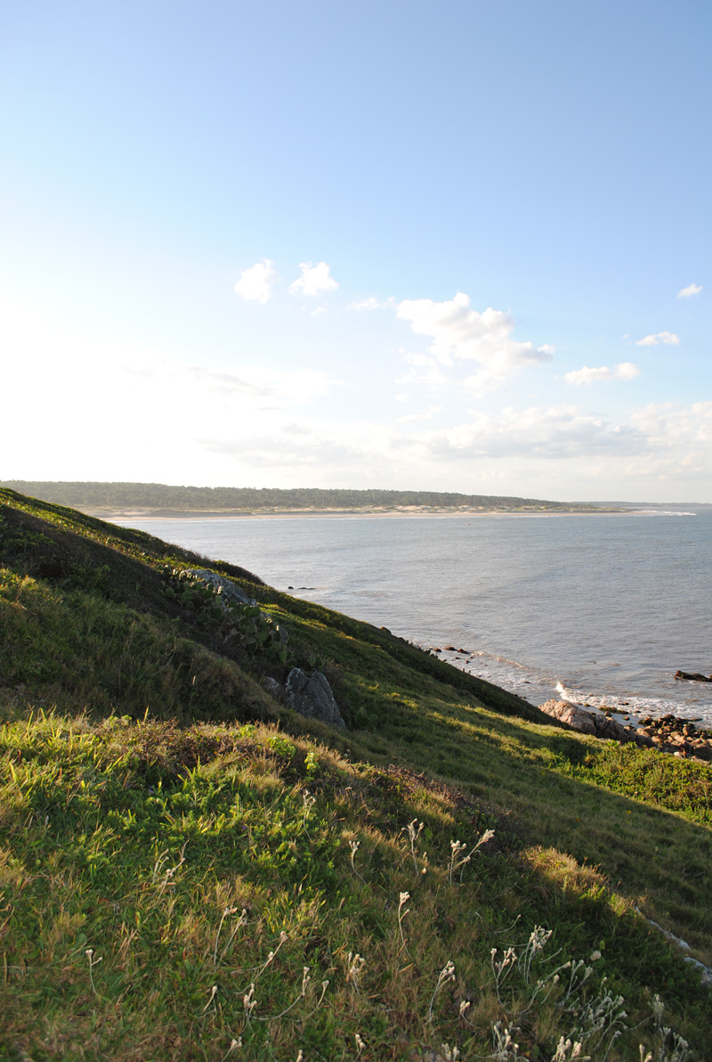 View from Cerro Verde to Puntas de la Coronilla